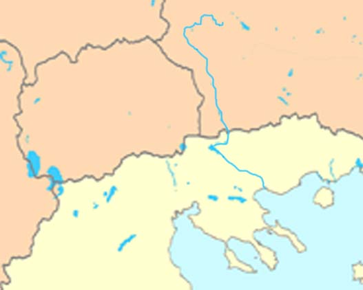 Strymonas river, Macedonia, Greece